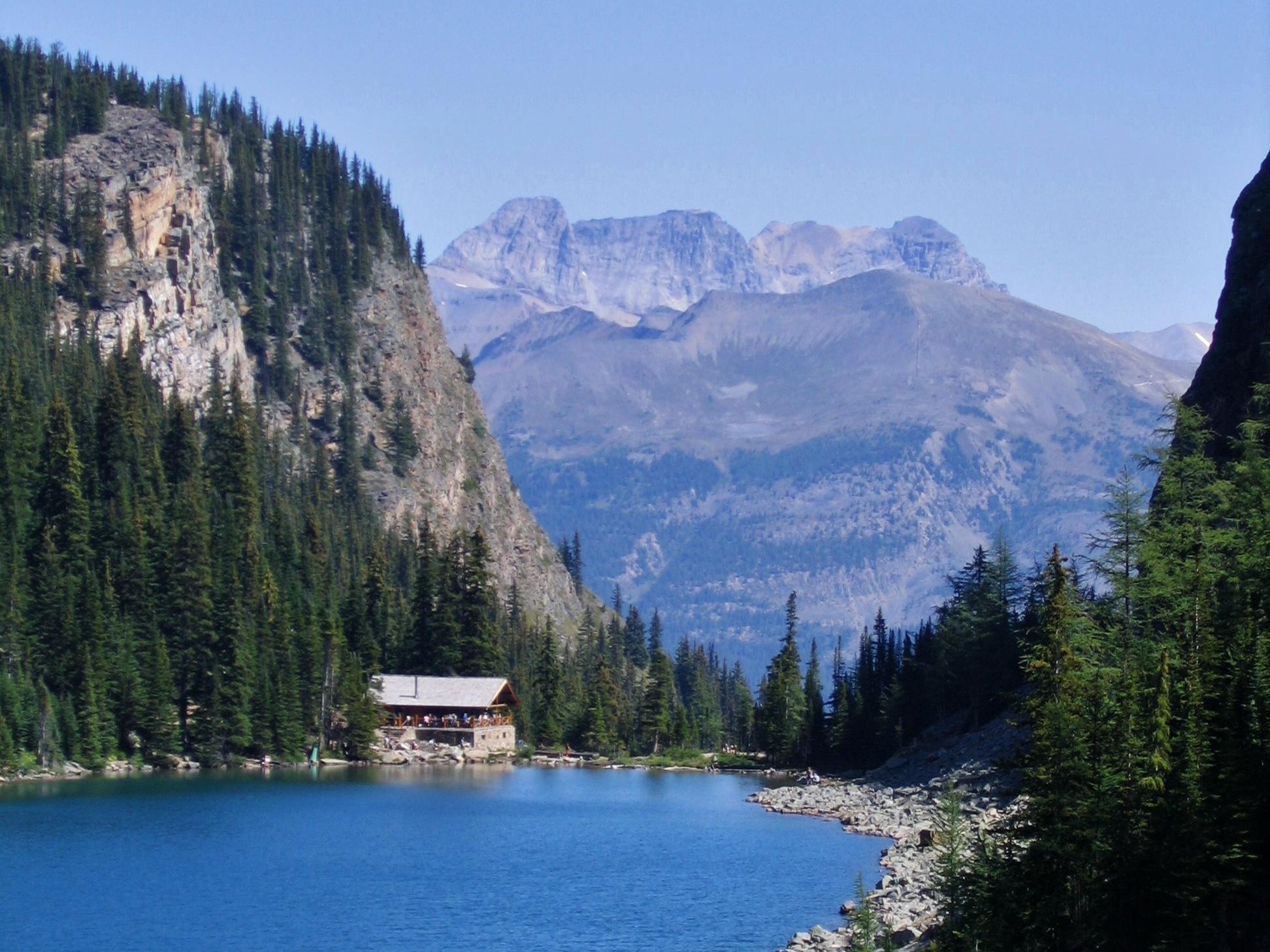 Lake Agnes Tea House